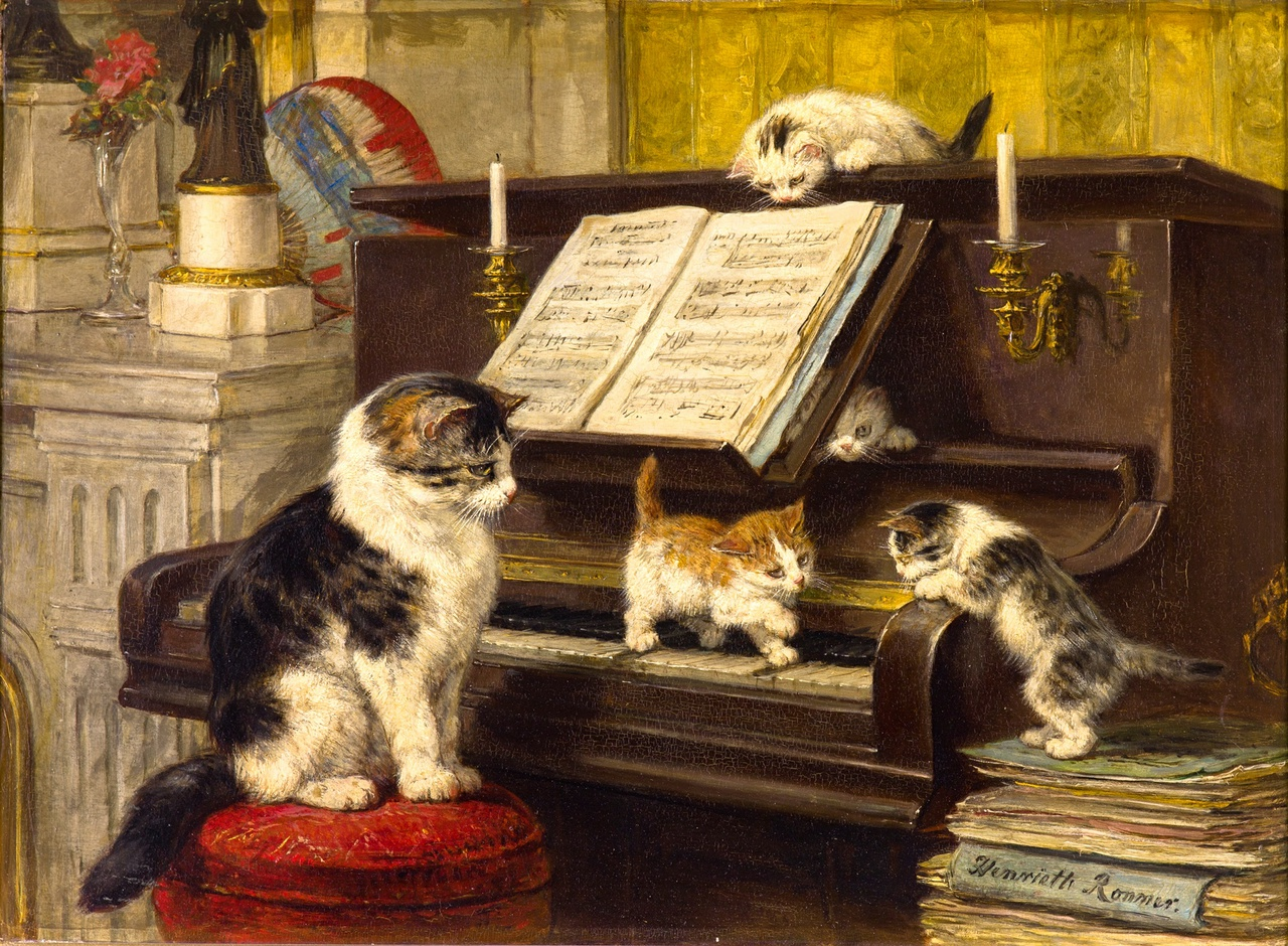 Pianolesson by Henriëtte Ronner-Knip. Cats are playing on the piano